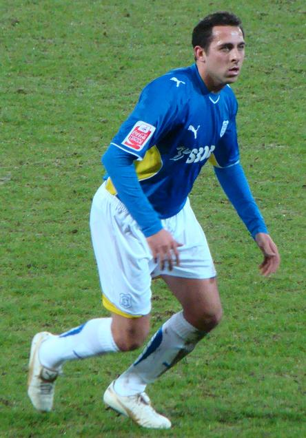 Photo of footballer Michael Chopra